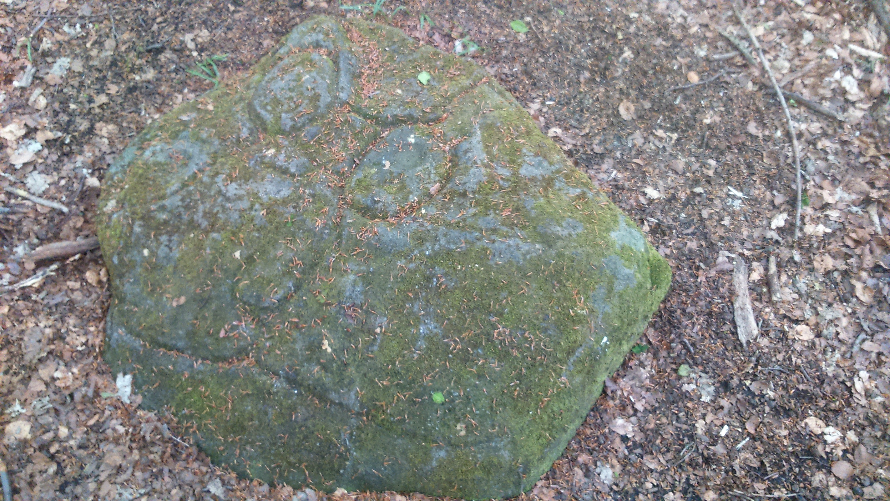 Cup-and-ring marked rock in Ecclesall Woods in Sheffield. Discovered in 1981, it dates to the late Neolithic or Bronze Age. It is 2 metres in diameter. The location is not publicised.